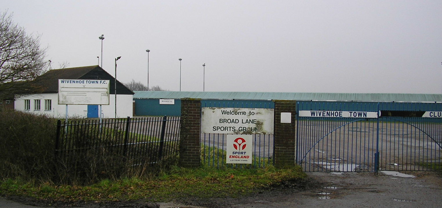 The ground of Wivenhoe Town F.C.. It calls itself Broad Lane Sports Ground but the entrance is in Elmstead Road at grid reference TM 044 236.